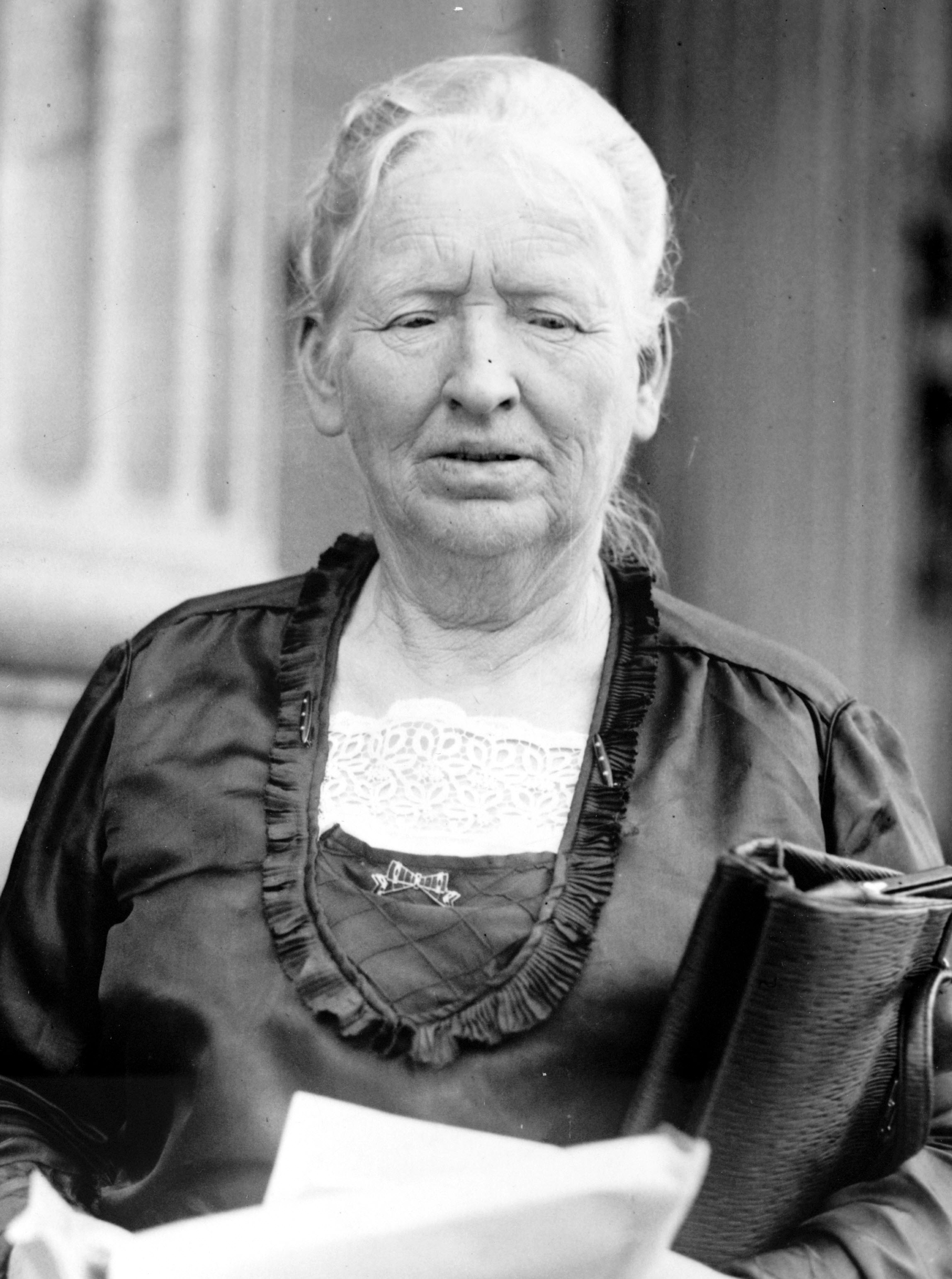 Congresswoman Alice Mary Robertson